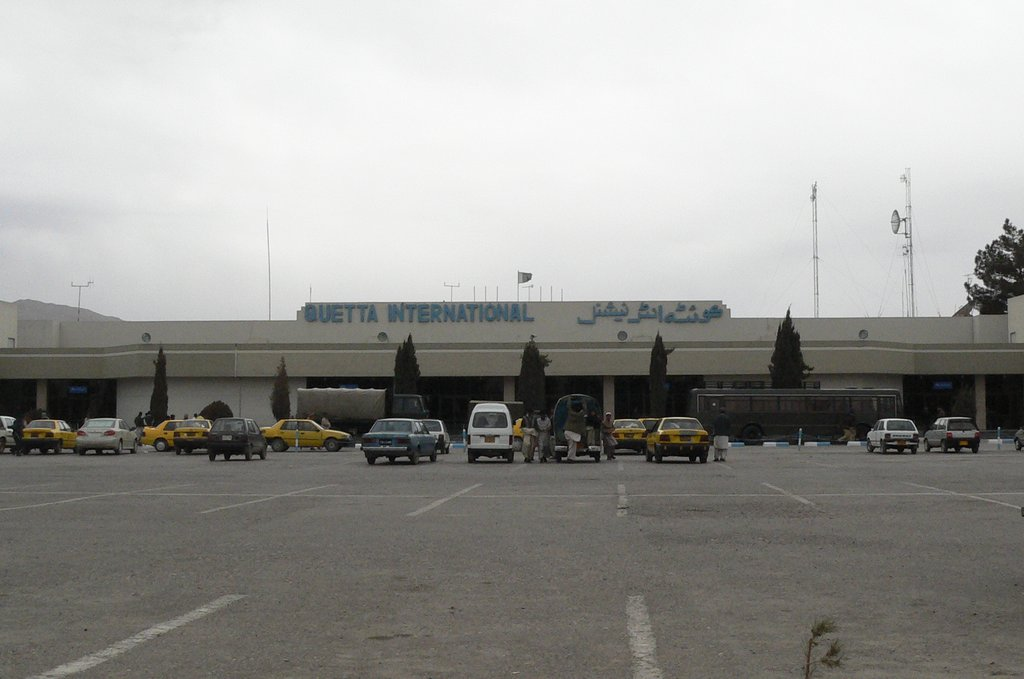 Quetta International Airport, Pakistan. Photo by Waqas Usman. More photos at and